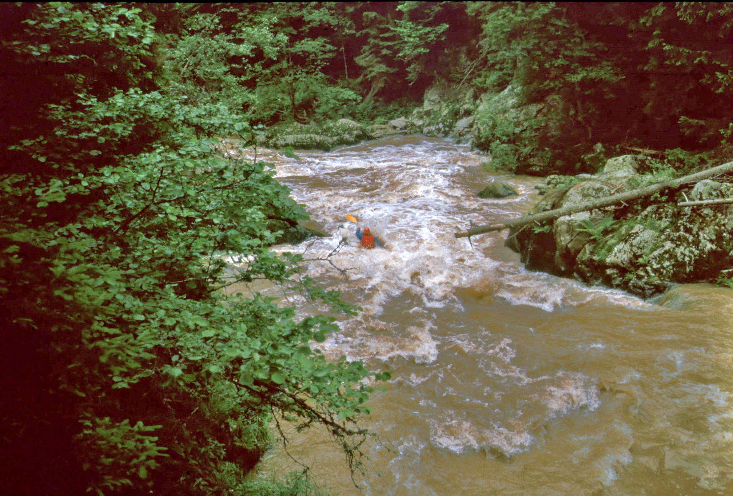 Wutach, Stallegg Gorge